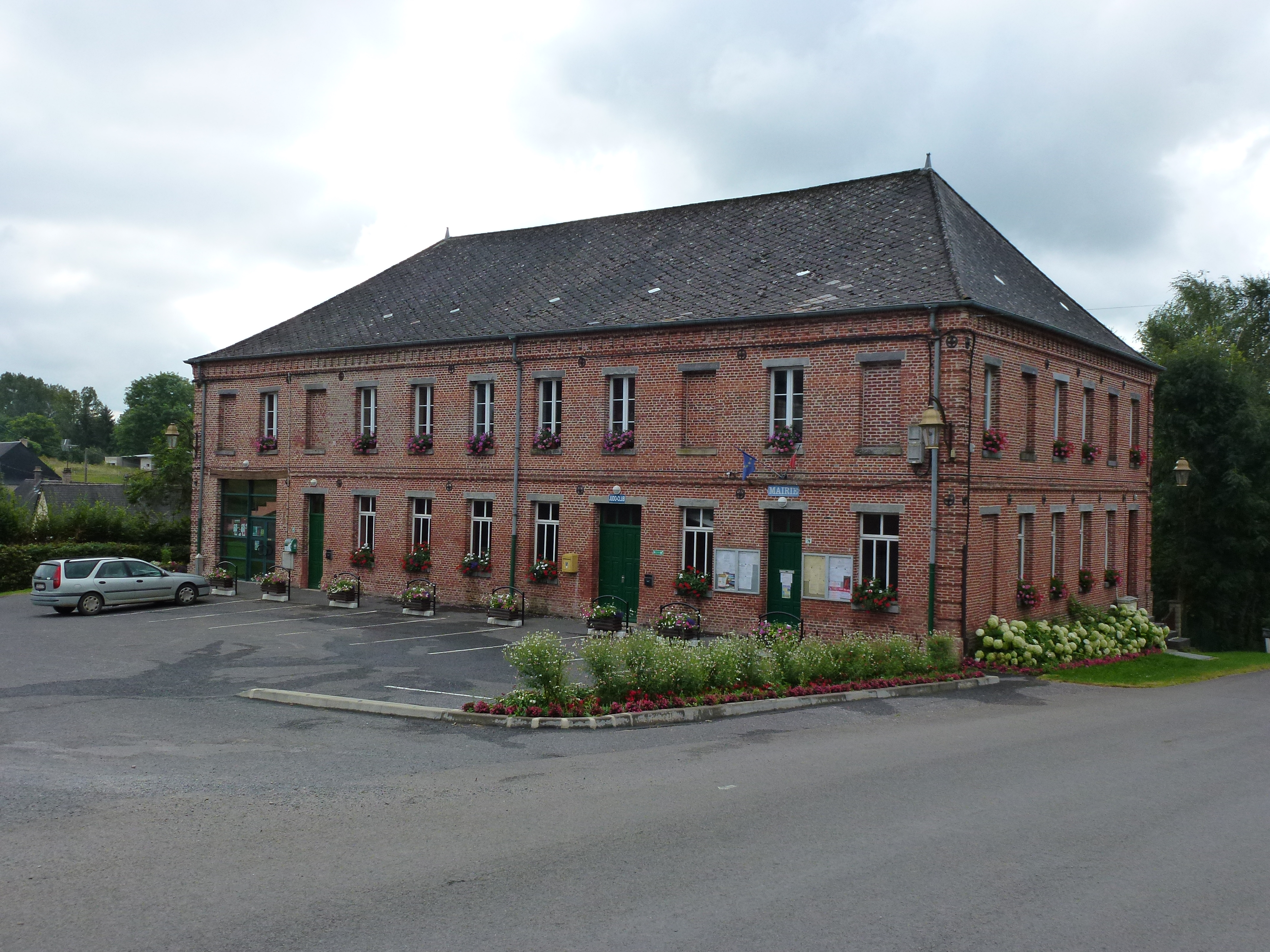 La Neuville-aux-Joûtes (Ardennes) mairie